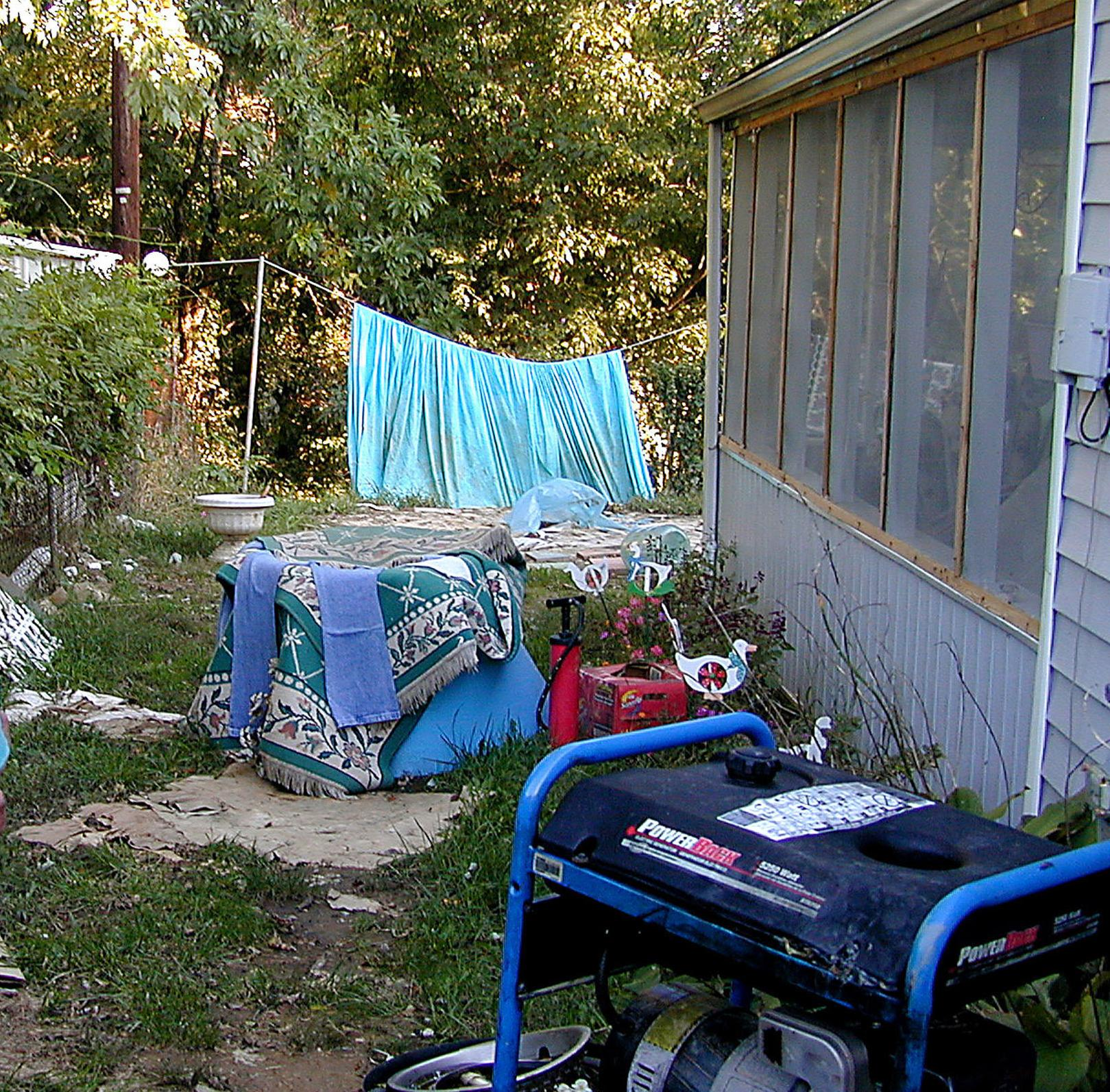 Damage in Glenville, Delaware from Hurricane Floyd